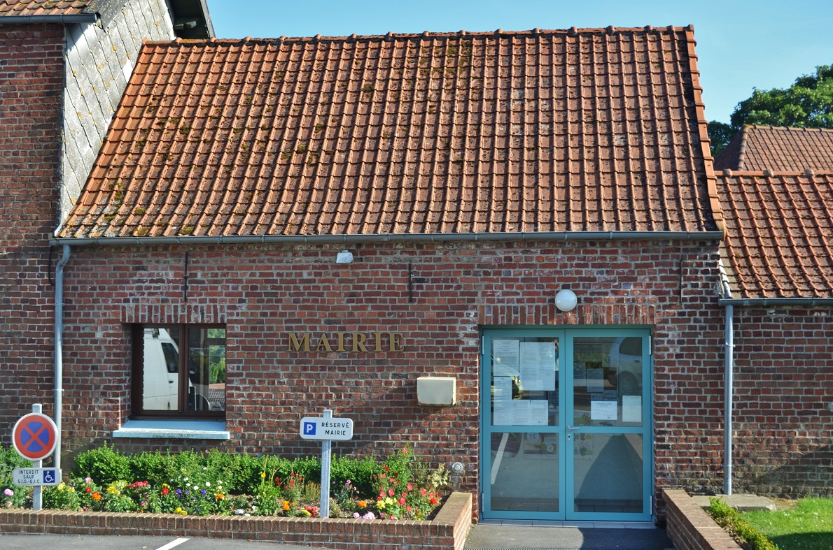 La Mairie